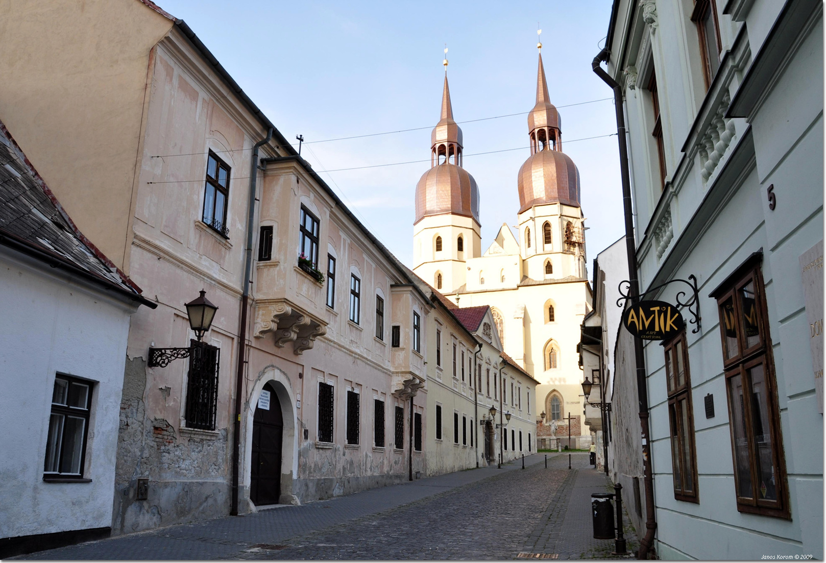 Street in Trnava